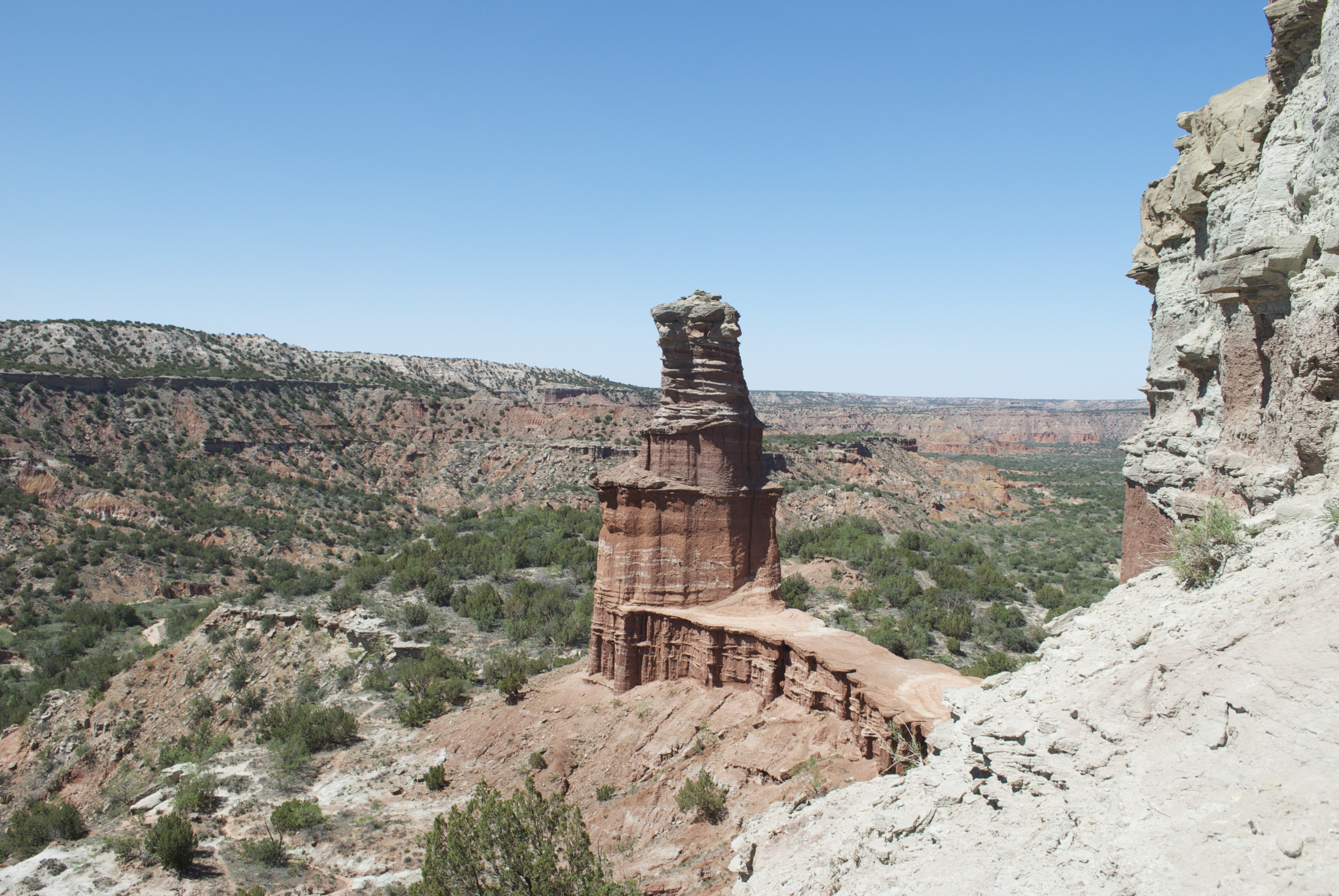 “The Lighthouse”, a pillar-like erosional remnant of Upper Triassic continental sandstones and shales of the Trujillo Formation (Dockum Group)[1] in the northern part of the Palo Duro Canyon, about 20 km SE of Amarillo, NW-Texas, USA.